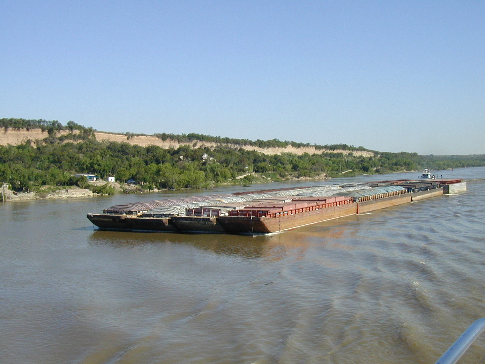 a grup of barges in parana river